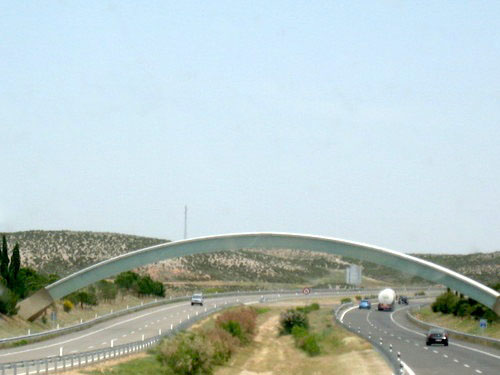 Meridian arch on the Autopista del Nordeste AP-2 between Peñalba and Candasnos in Spain.